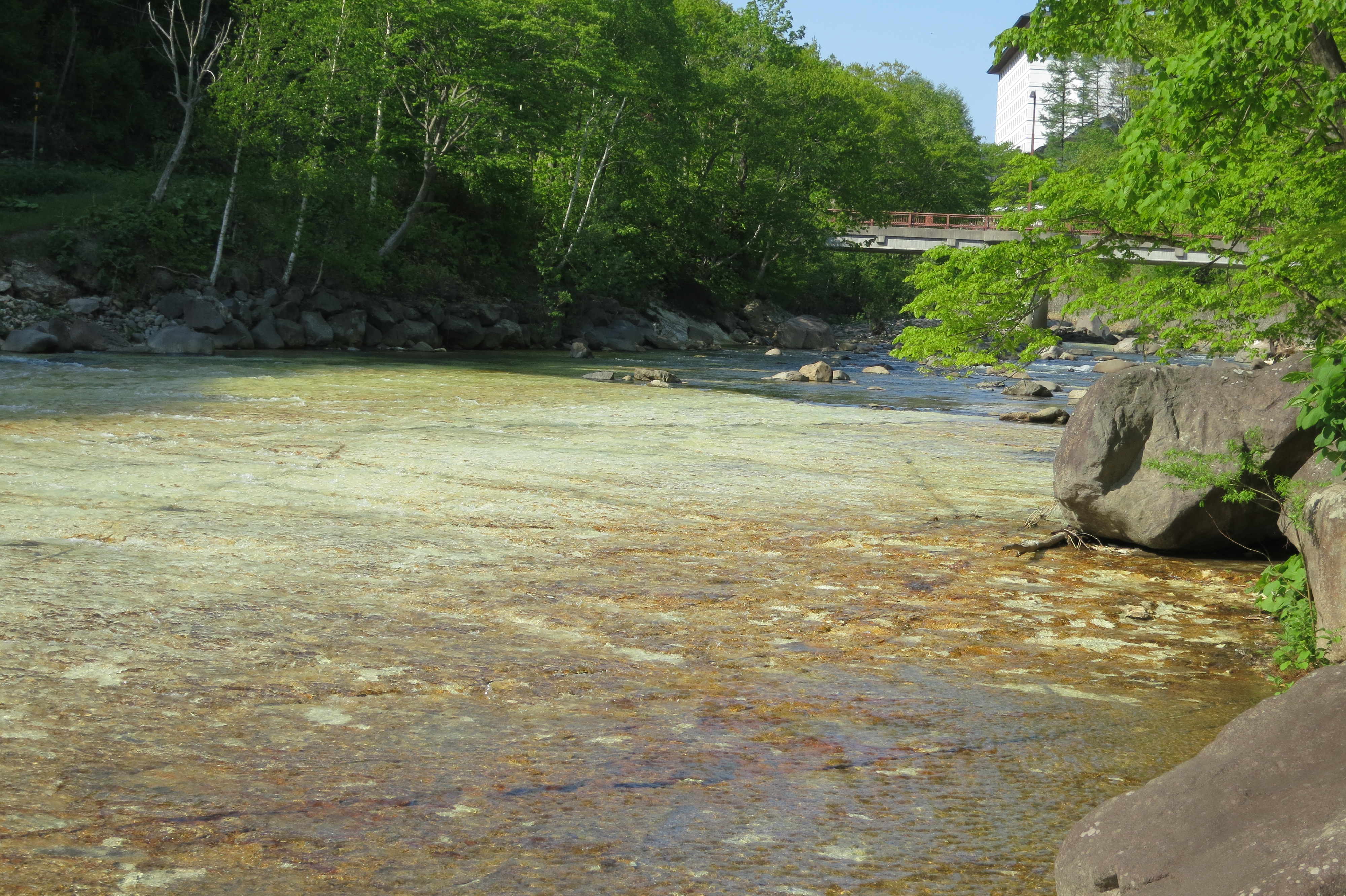 this is the picture of Shirakinunotaki